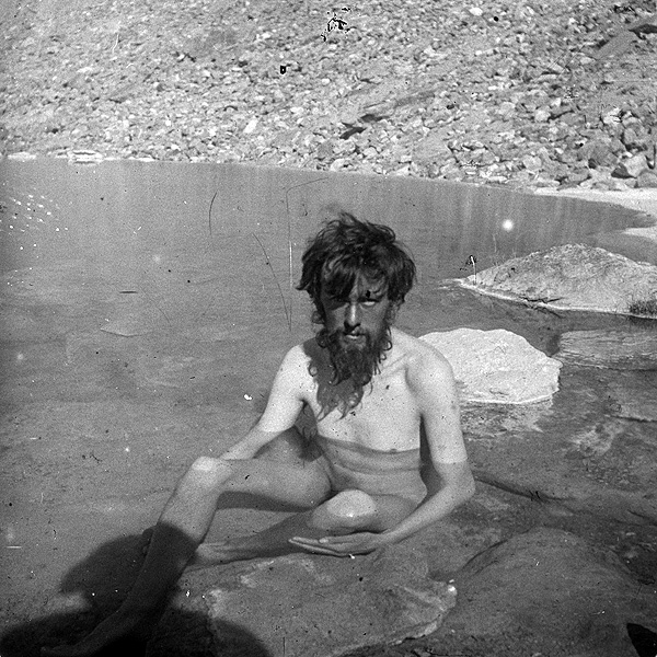 The English occultist, poet, and novelist Aleister Crowley bathing in a spring on the lower Baltoro Glacier during his 1902 expedition to climb K2 in the Himalayas.